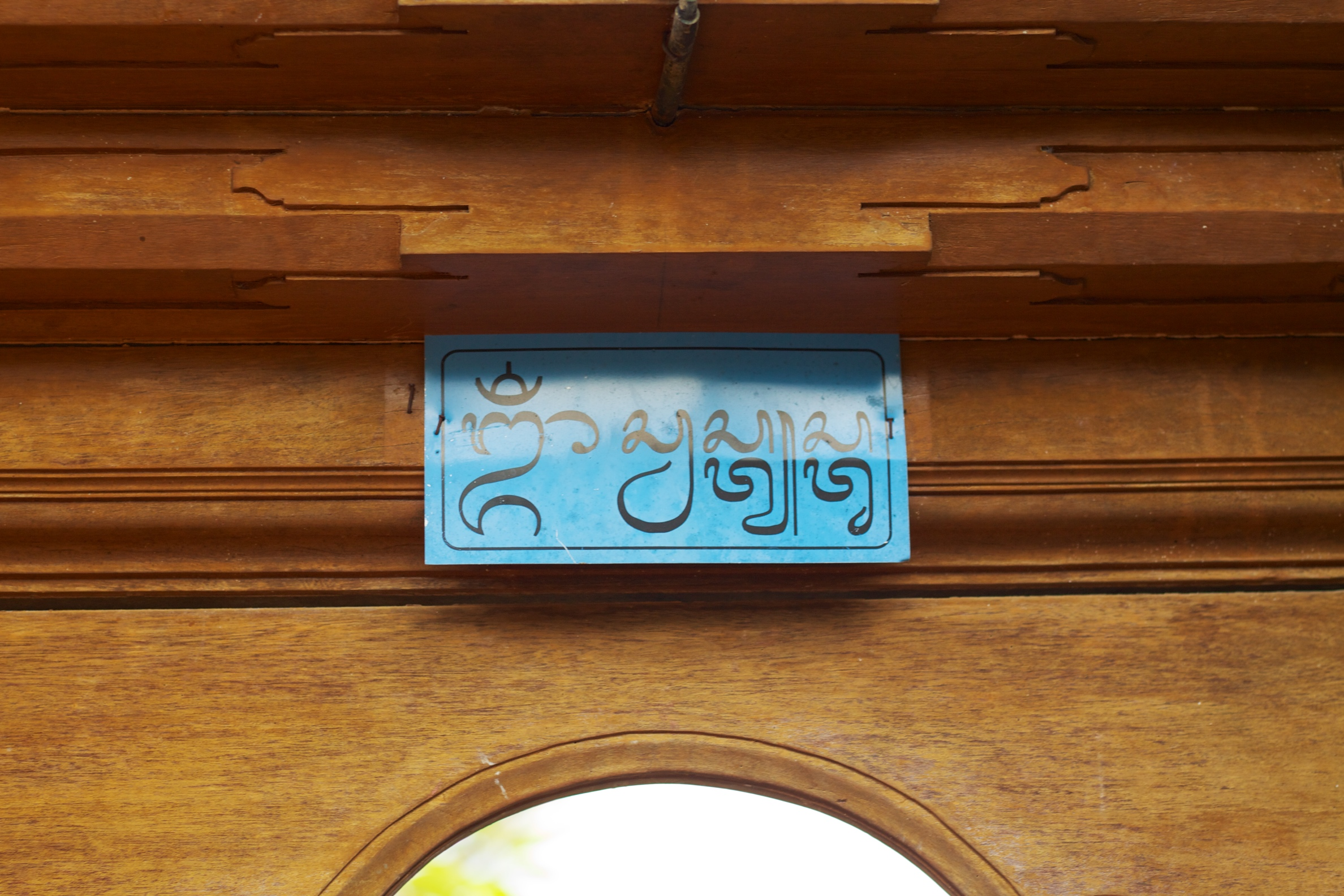 The temples of Ubud were all marked with this sign in traditional Balinese script, arguably one of the most beautiful scripts in the world, but also an endangered one as people switch to speaking Bahasa Indonesia and writing in the Roman (English) script. The first character is the Balinese character for "Om"